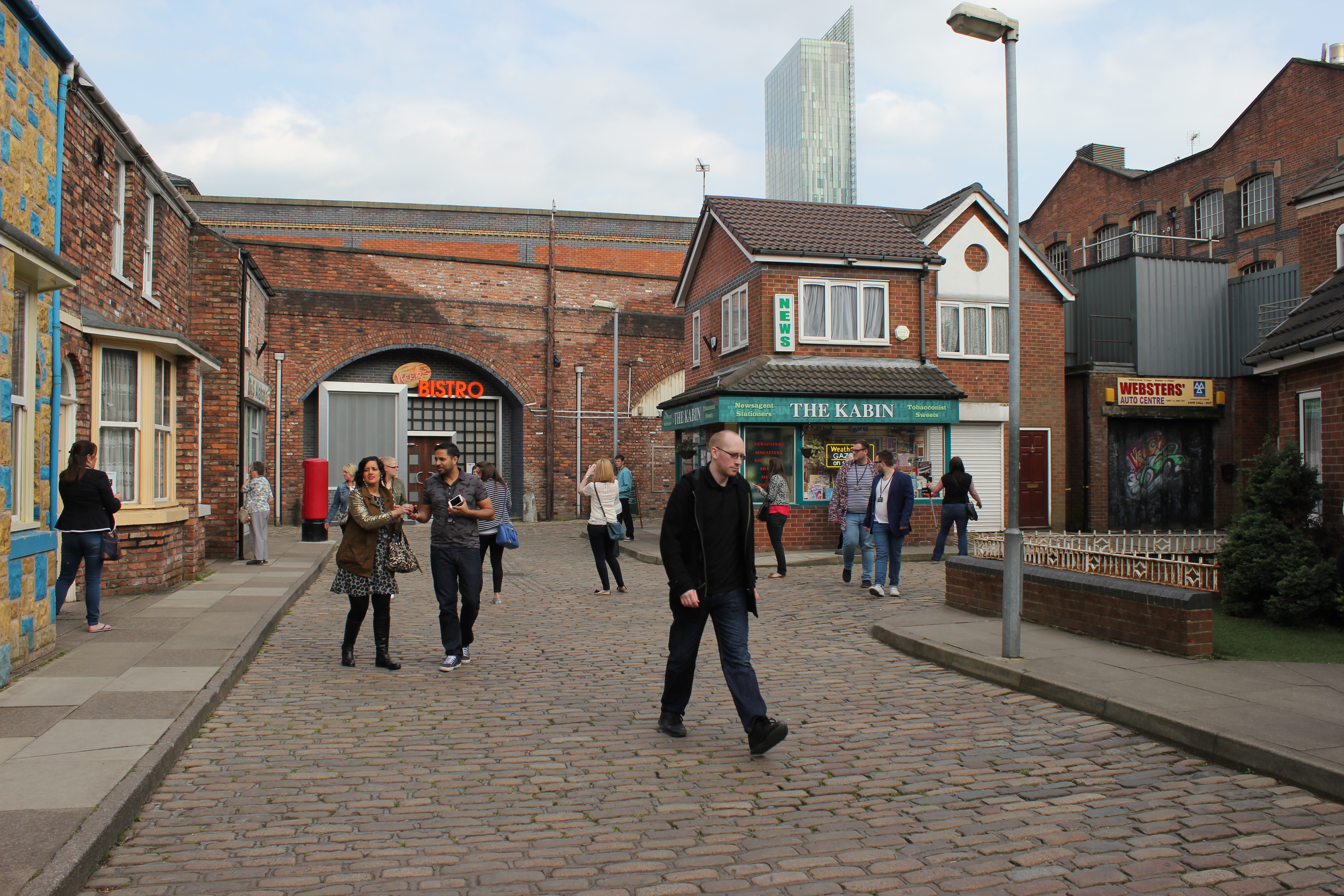 Coronation Street